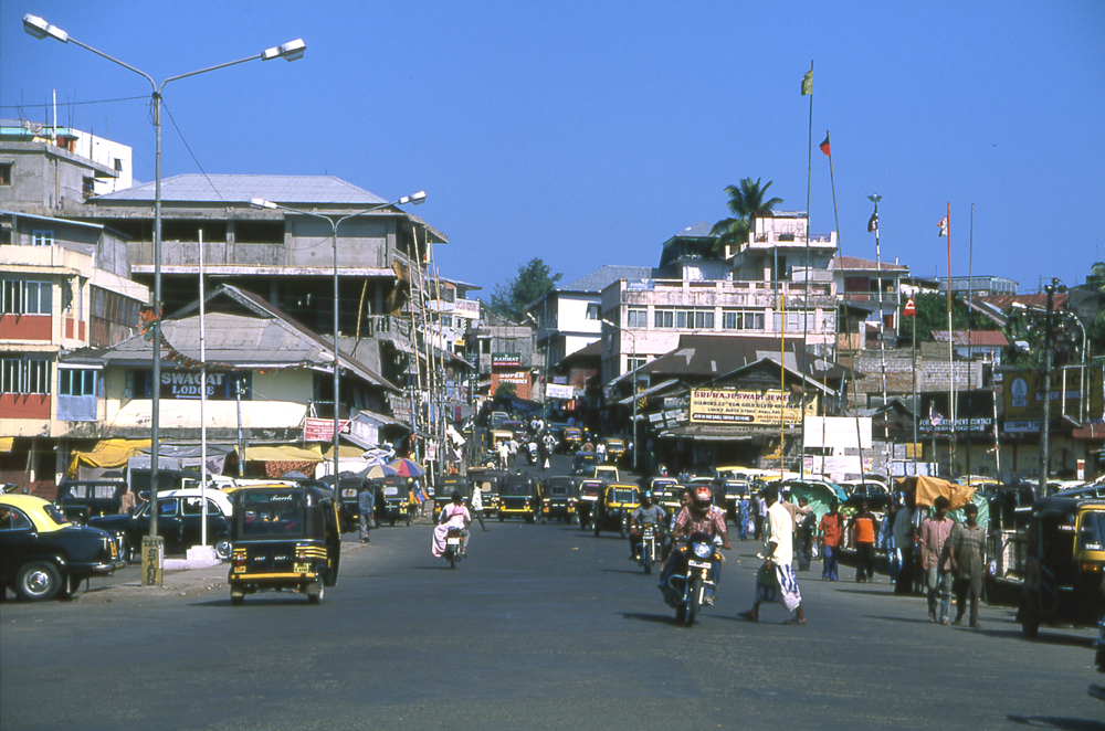 The center of Port Blair, South Andaman Island, India Photograph by Henryk Kotowski